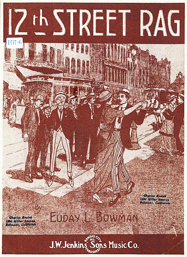 "12th Street Rag". Sheet music, early (first?) edition, 1915.